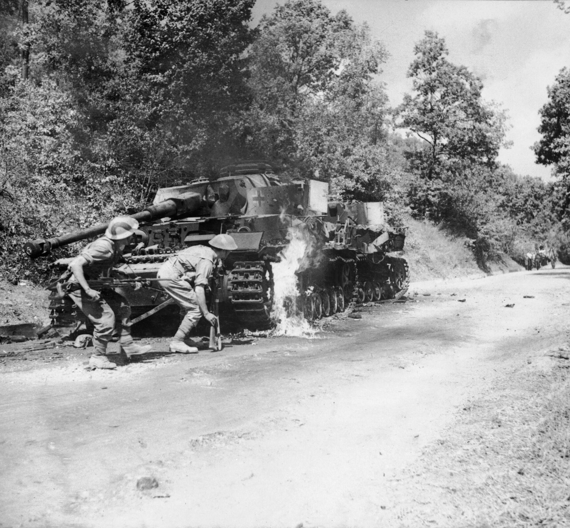 Men of the 2/6th Queens's Regiment advance past a pair of burning German PzKpfw IV tank in the Salerno area, Italy, 22 September 1943. Men of the 2/6th Queens's Regiment advance past a burning German PzKpfw IV tank in the Salerno area, 22 September 1943.